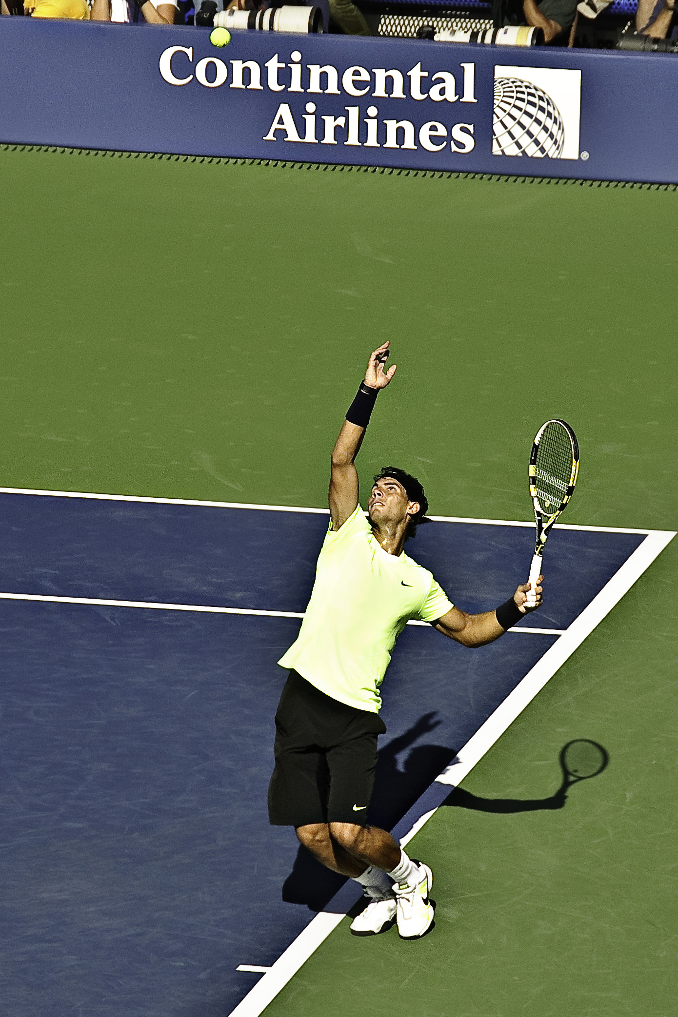 Rafael Nadal at the 2010 US Open